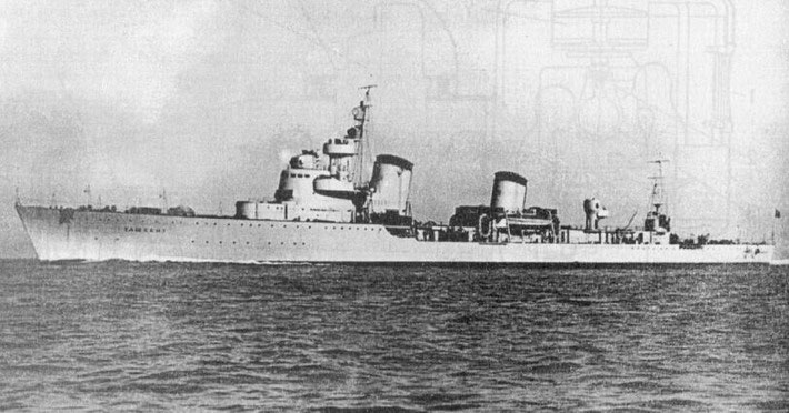 Soviet type 20 Leader of Destroyers «Tashkent»